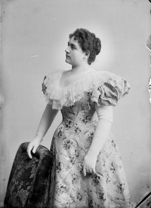 Armida Parsi-Pettinella, Italian mezzo-soprano (1868-1949). Photo by Antoni Esplugas (1852-1929)